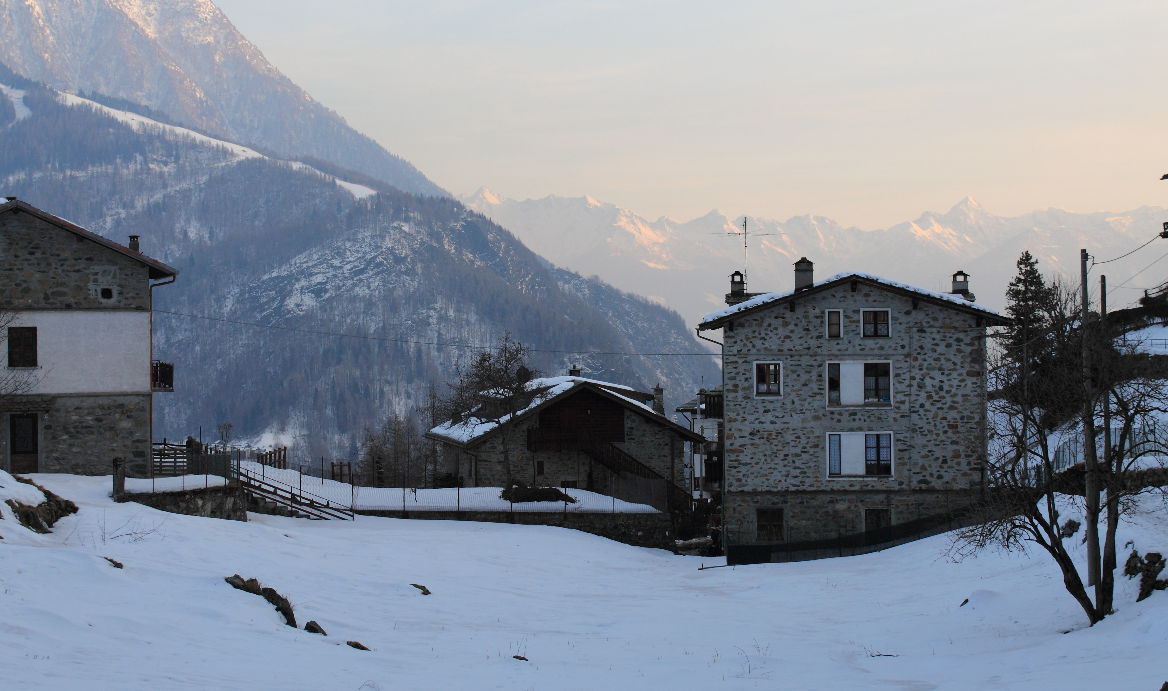 Typical houses in Primolo, Chiesa in Valmalenco, Sondrio, Italy